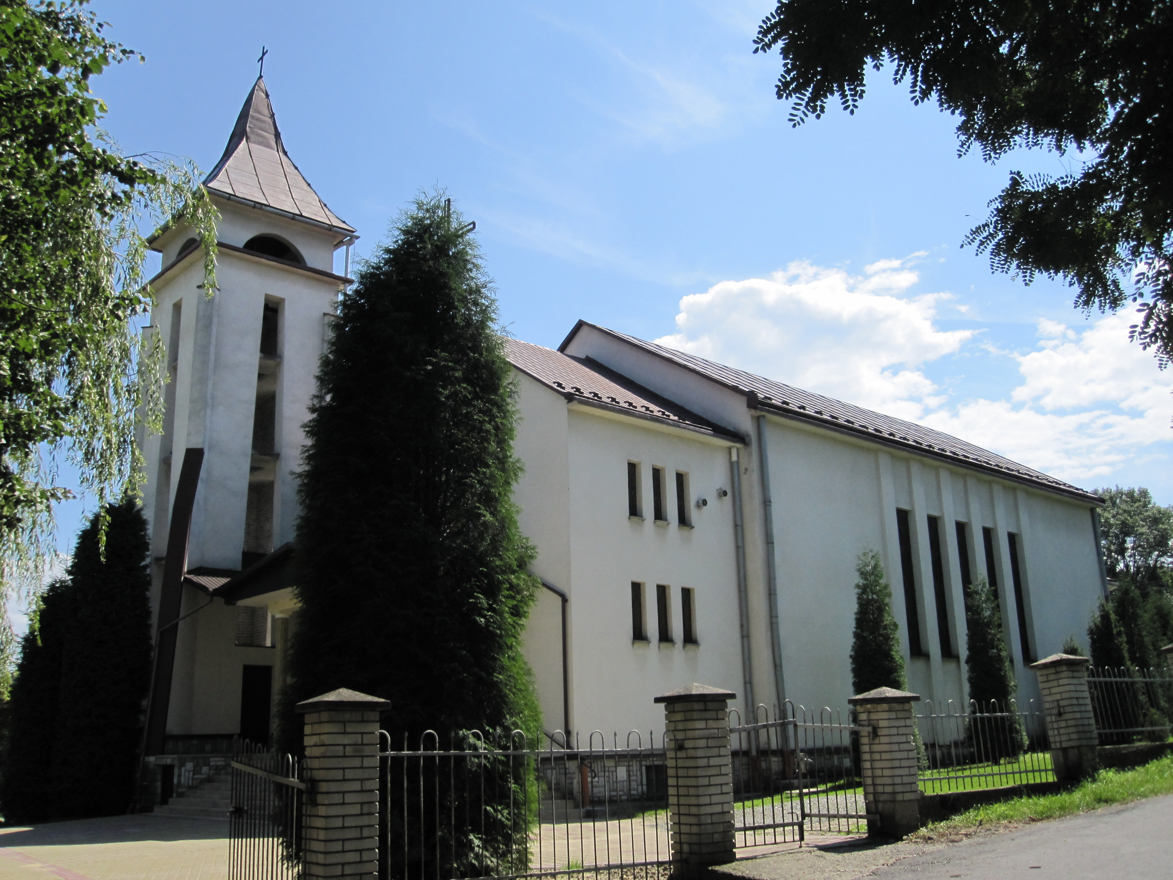 Church in Pisarowce